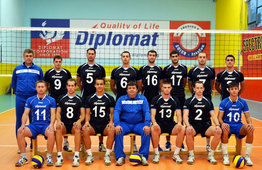 Photo of VC Botev Lukovit for season 2011/2012